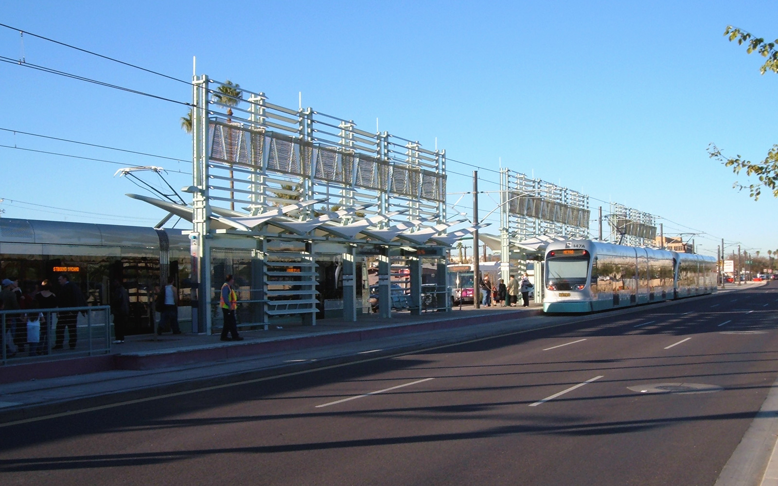 Photograph of the Christown (or 19th Avenue at Montebello) Station of METRO Light Rail that serves the Phoenix area, Arizona, USA. This photograph was taken on December 29, 2008.